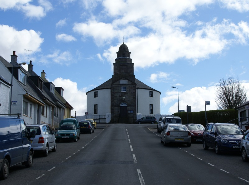 Kilarrow Parish Church, Bowmore, Islay, Scotland.